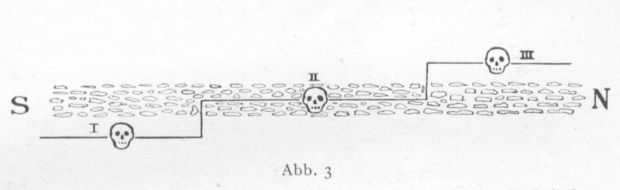 Scheme of the position of the Corded ware burials